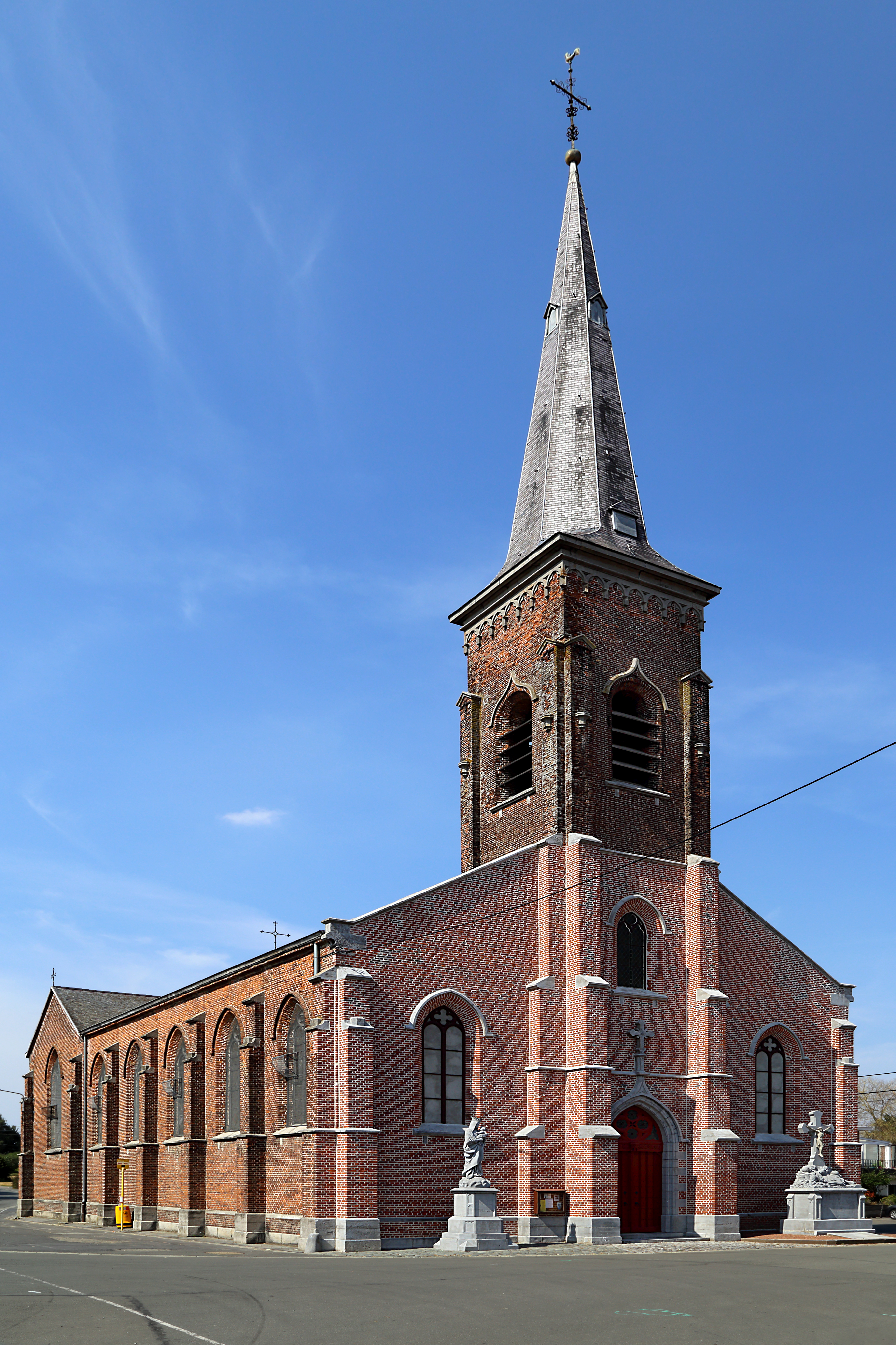 Saint-Ghislain church in Molenbaix, Belgium.